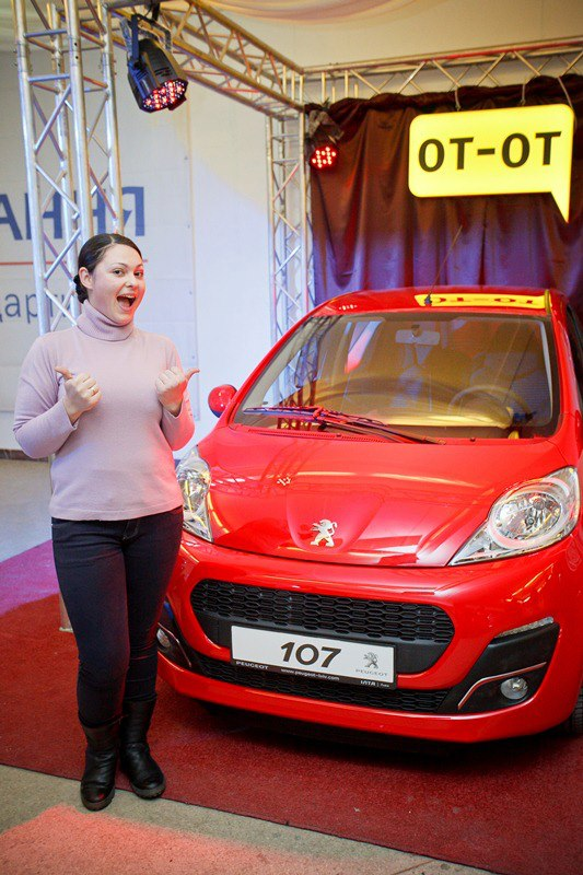 Головний приз по програмі «ШокоКартка», який здобула львів’янка Лідія Крутих-Амелін